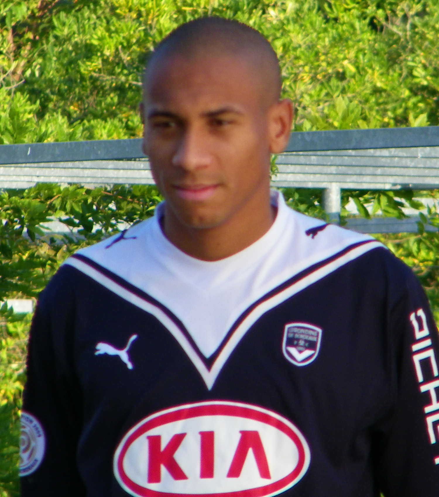 Jussiê Ferreira Vieira, player at FC Girondins Bordeaux. Taken by Valentin Trijoulet. Public domain.